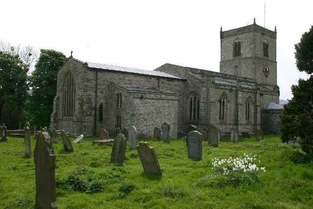 Wensley Holy Trinity Church